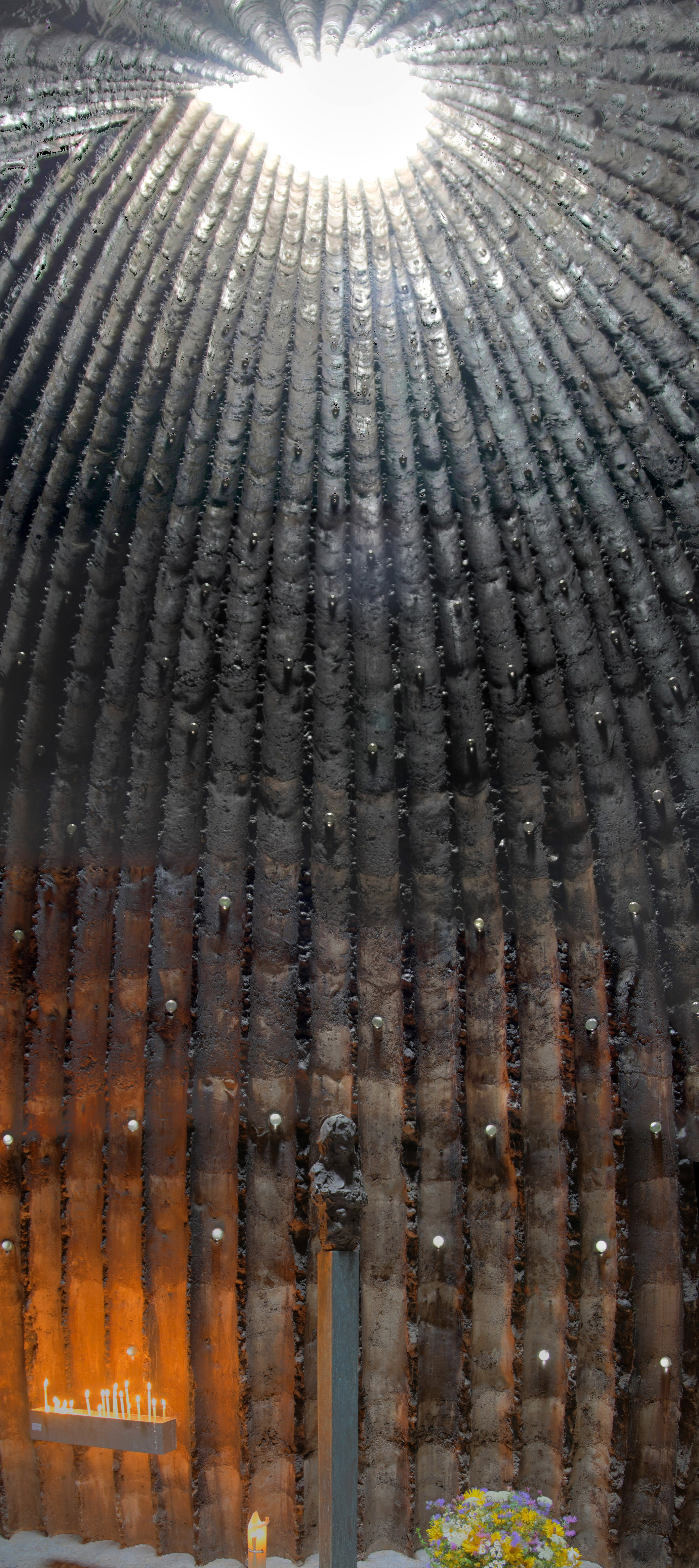 Interior of the Chapel for Brother Nikolaus von der Flüe. This is a vertical panorama of HDR images, starting with the flowers that stand on the ground, and ending with the hole to the sky above the head.